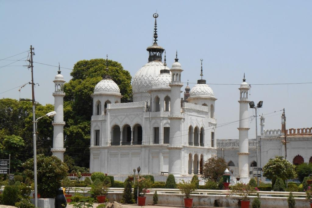 Treasurey